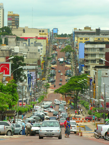 Avenida Brasil – main street of Foz do Iguaçu.